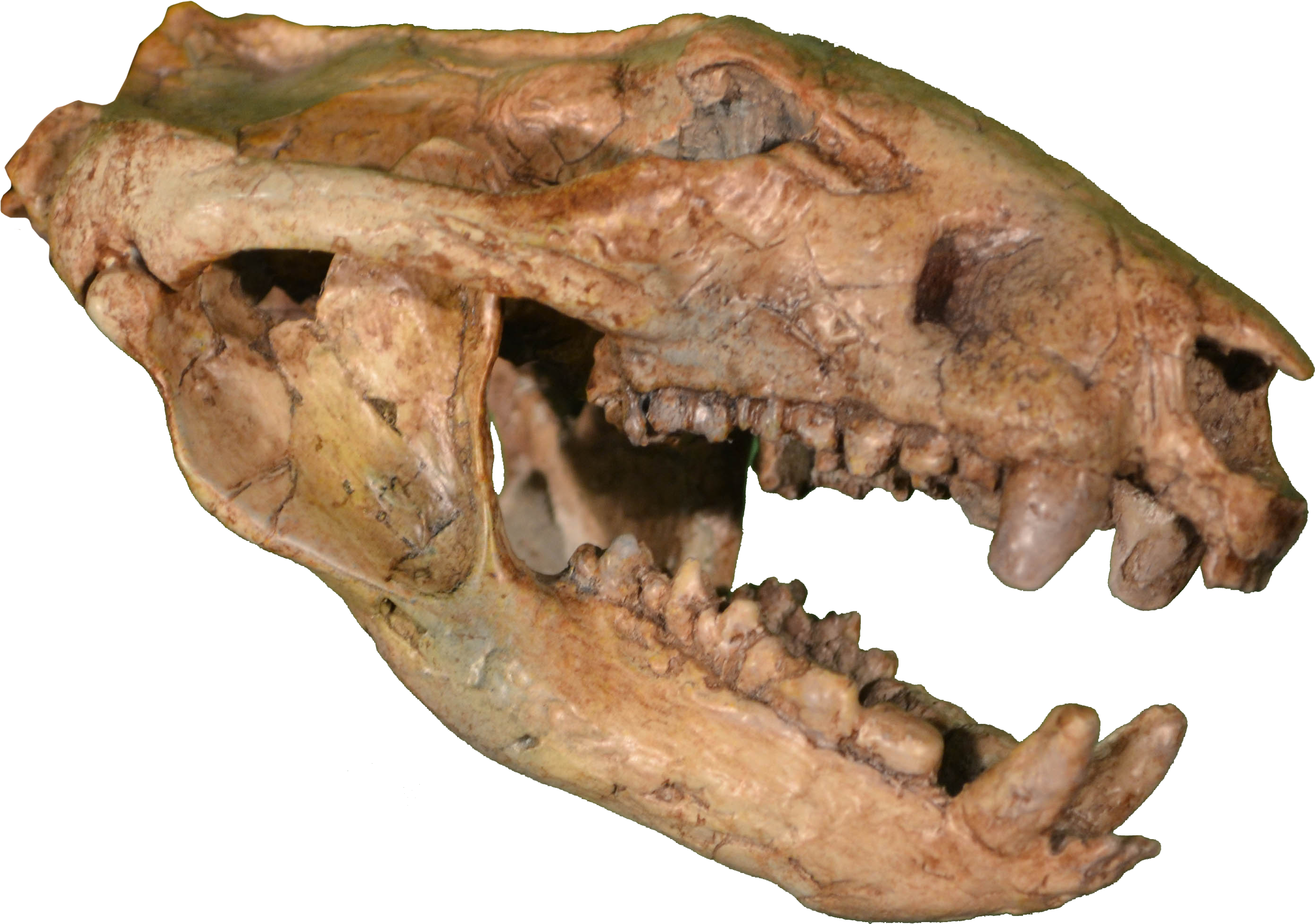 Skull of Didelphodon vorax in the Rocky Mountain Dinosaur Resource Center, Woodland Park, Colorado.